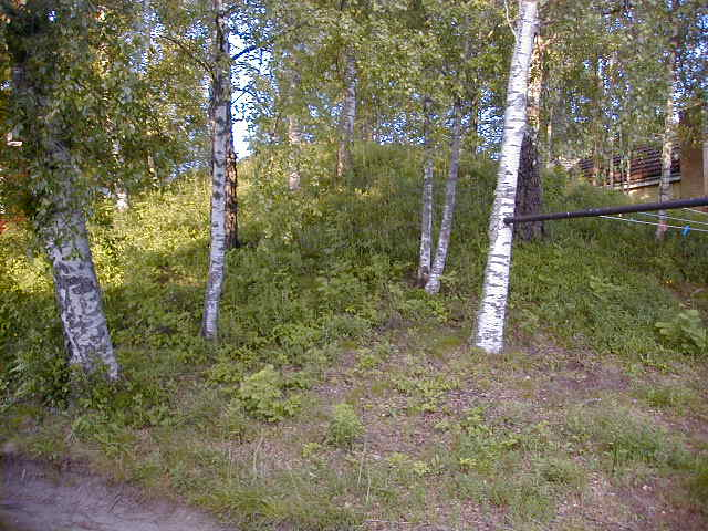 The second mound at Gjermundbu (not excavated, but probably not from the Viking age - perhaps older)